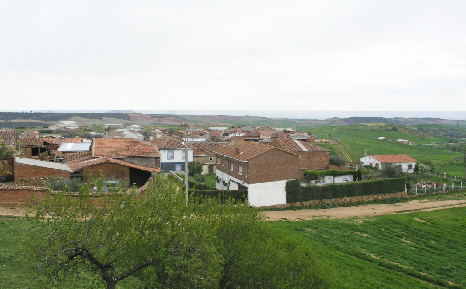 Robledillo de Mohernando, provincia de Guadalajara, Spain. View.